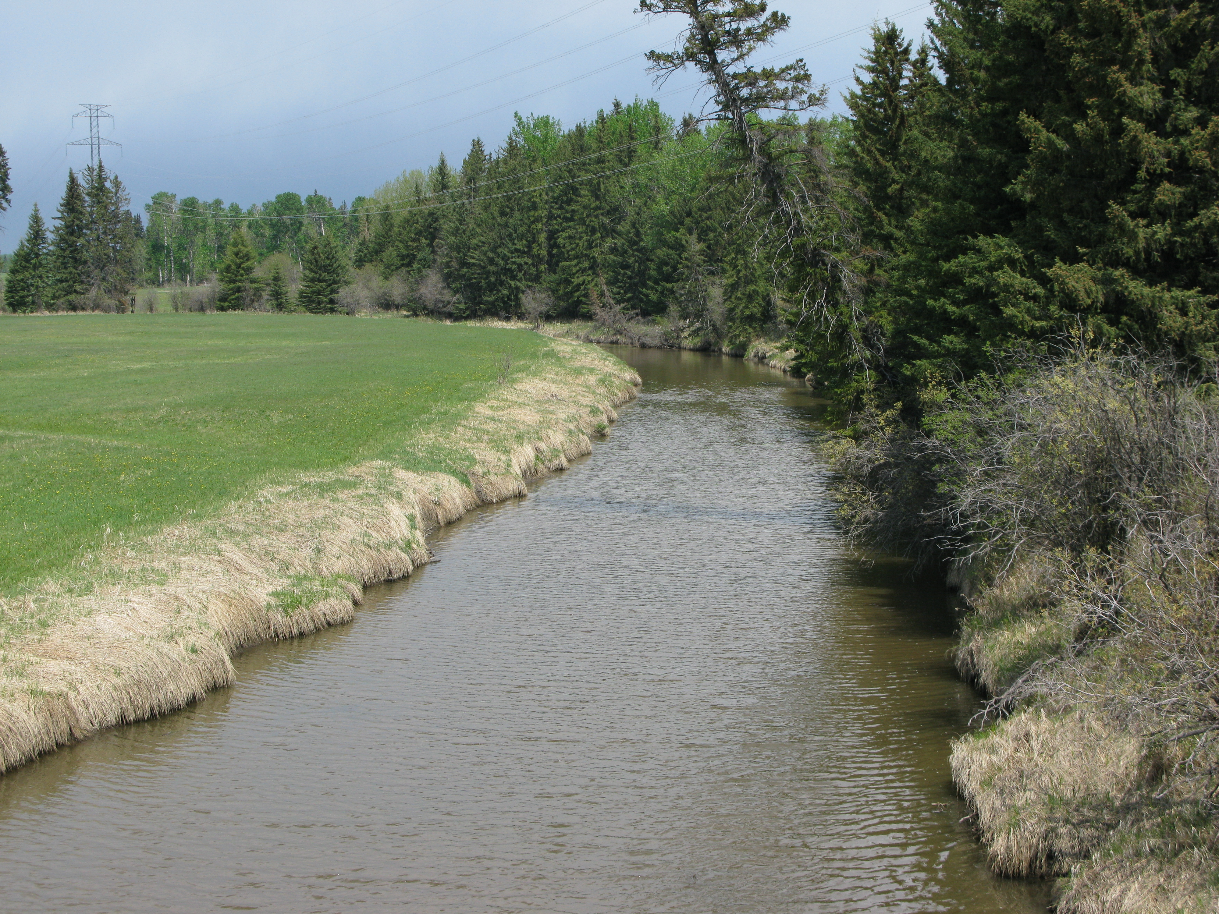 Medicine River from AB Highway 53